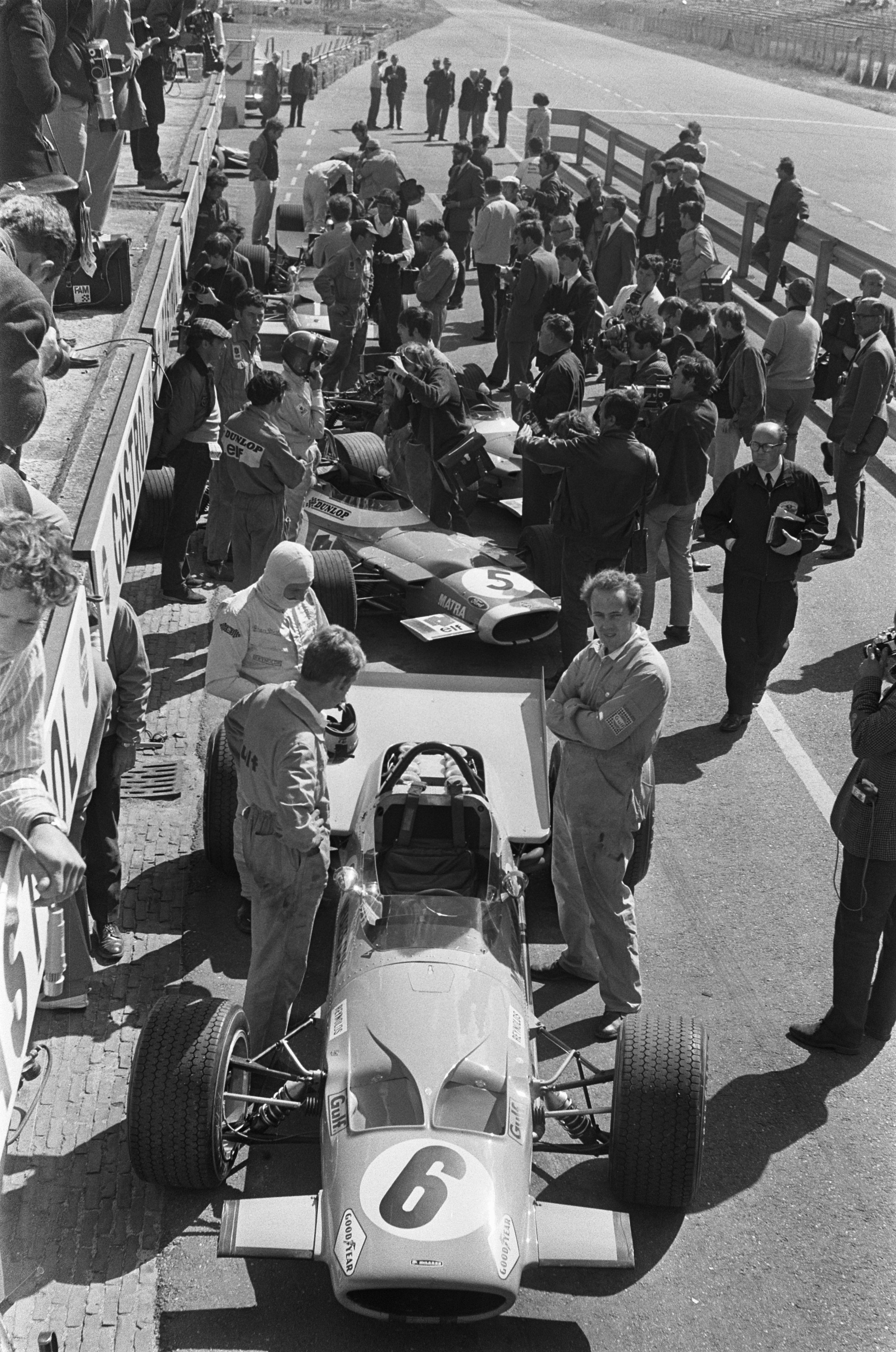 Bruce McLaren (centre left, white balaclava) prepares to take his seat in his McLaren M7C Formula One car, prior to the 1969 Dutch Grand Prix. Behind, French driver Jean-Pierre Beltoise (helmet on) is about to board his Matra MS80.